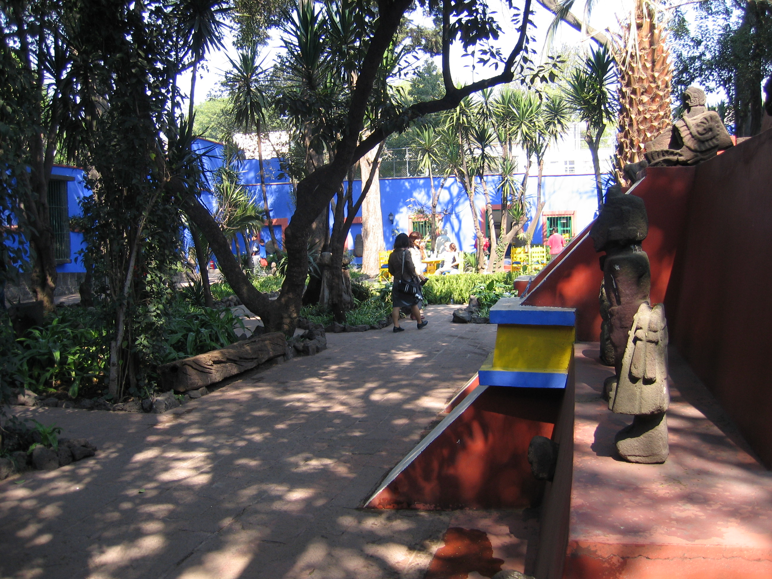 Garden of Frida Kahlo's house - The Blue House.